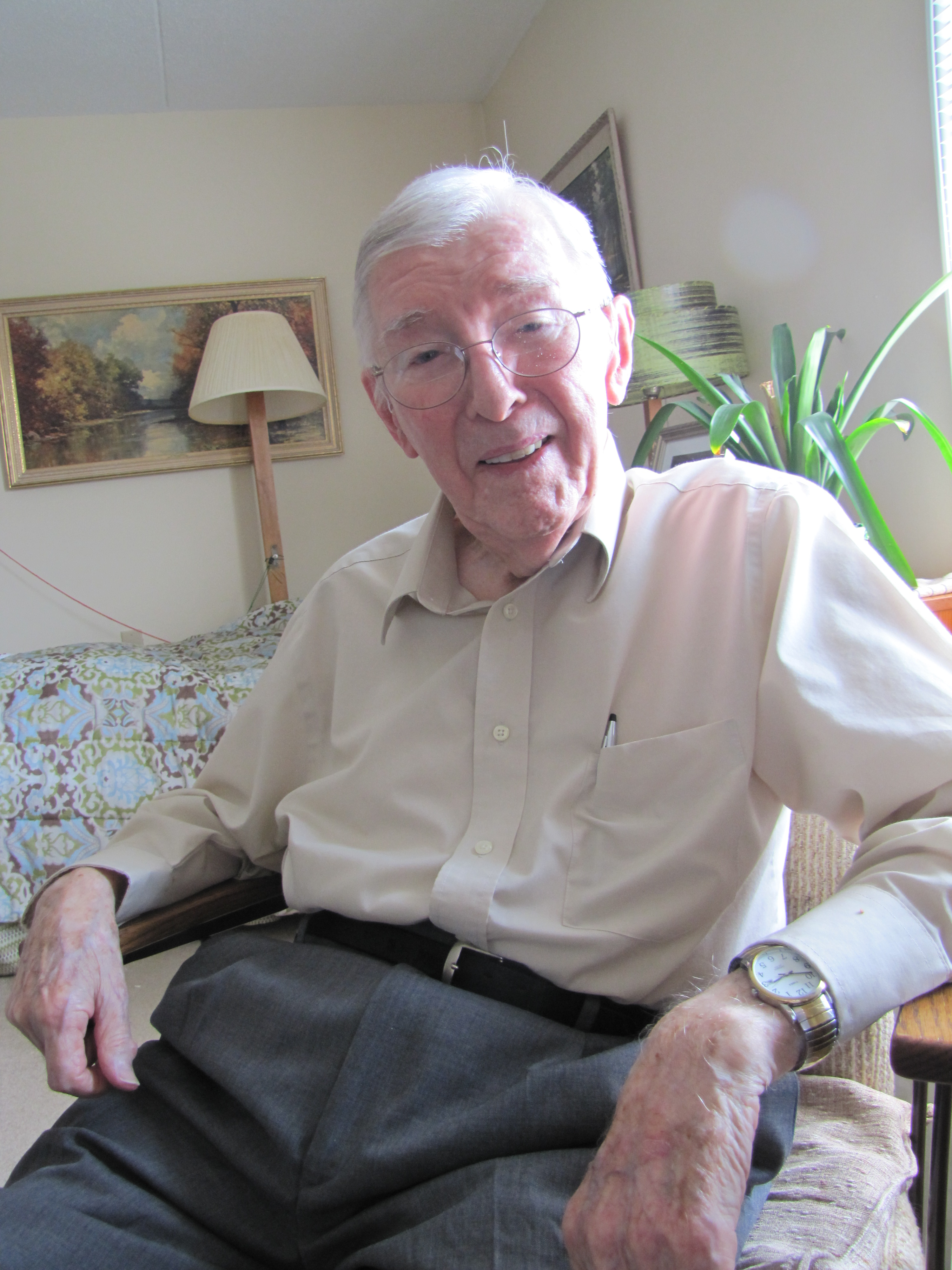 Dieter Grau, 97, recalls the challenges and opportunities of the early years of the nation's space program. Grau was a member of the original German rocket team, which will be recognized during a reunion event Saturday that will honor the 60th anniversary of the German rocket team's move to the U.S., and the 50th anniversary of the German rocket team's move from the Army at Redstone Arsenal to NASA's Marshall Space Flight Center.